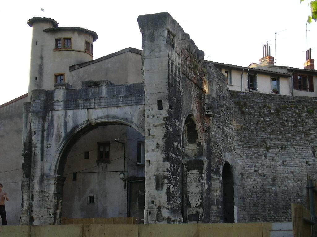 Streets of Vienne